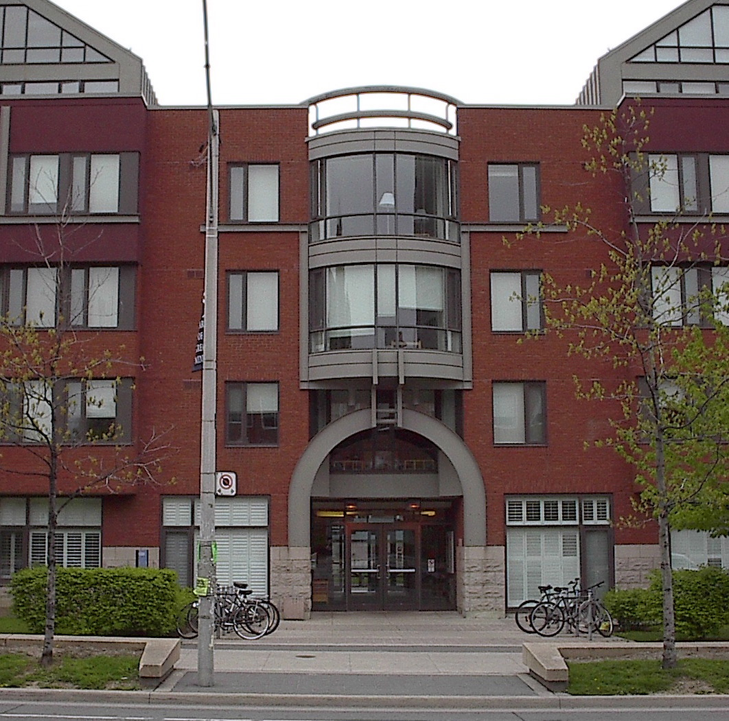 Main entrance of the Innis College Residence at the University of Toronto in Toronto, Canada.